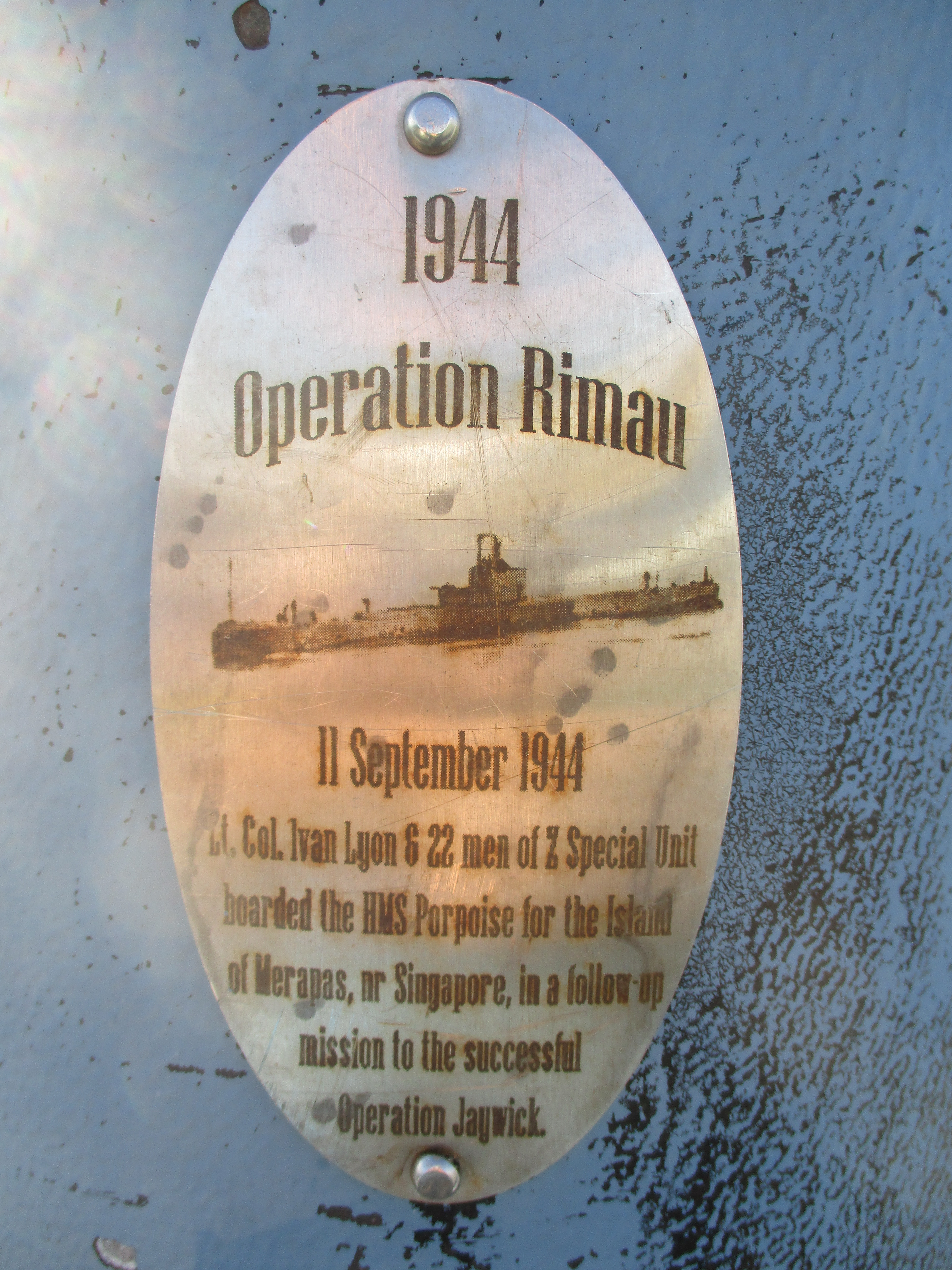 A World War II commemorative marker at the Palm Beach Jetty, Rockingham, Western Australia. These markers are located on the lamp posts of the Jetty.